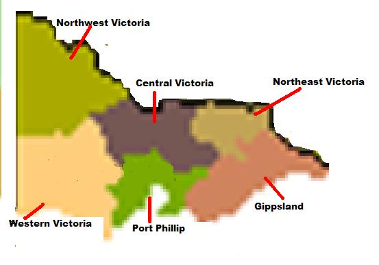 Image of Victoria Australia's wine zones Modified version of Image:Australian wine zones2.png by User:Froggydarb released under GNU license.